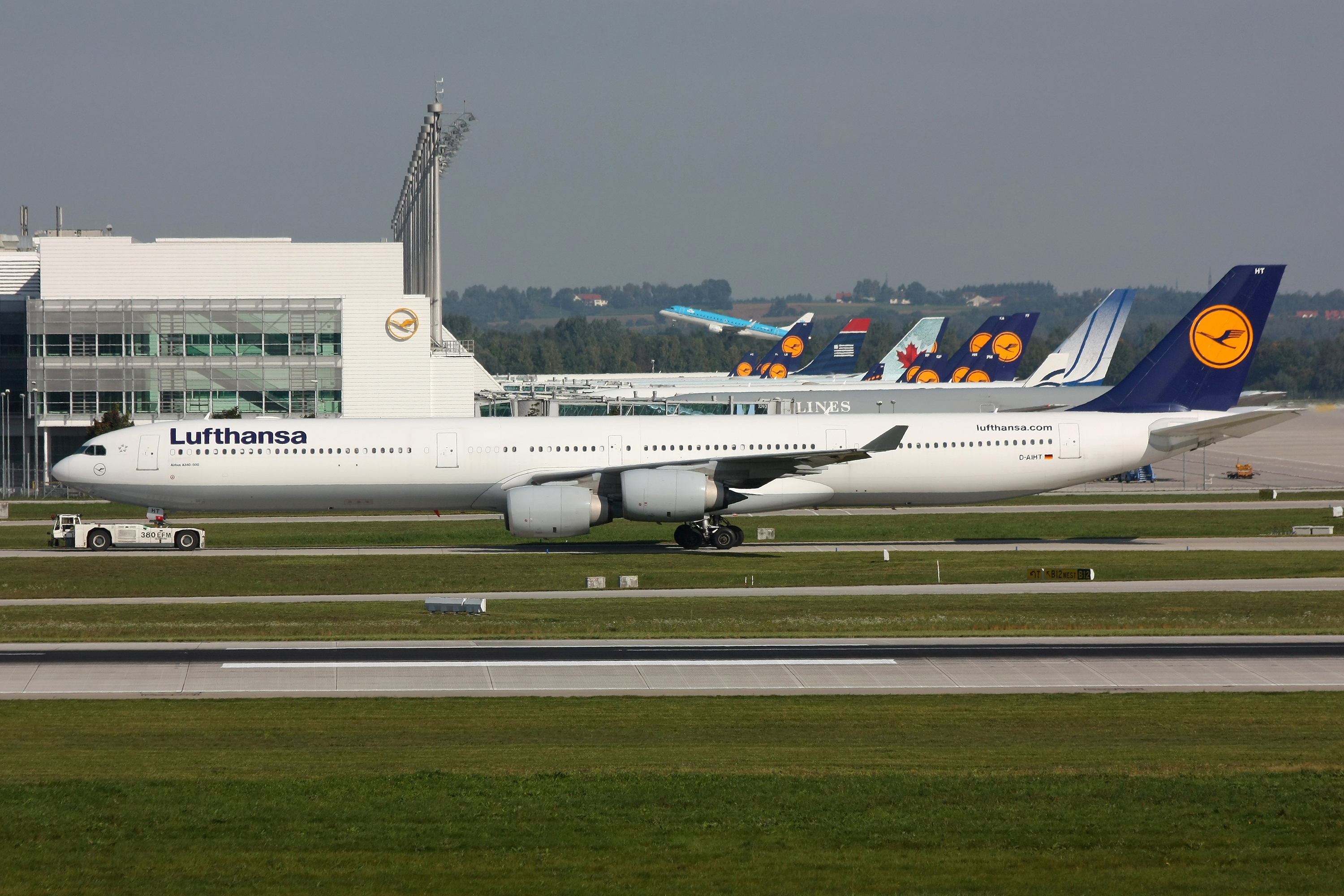 A Lufthansa Airbus A340-600 at Munich Airport